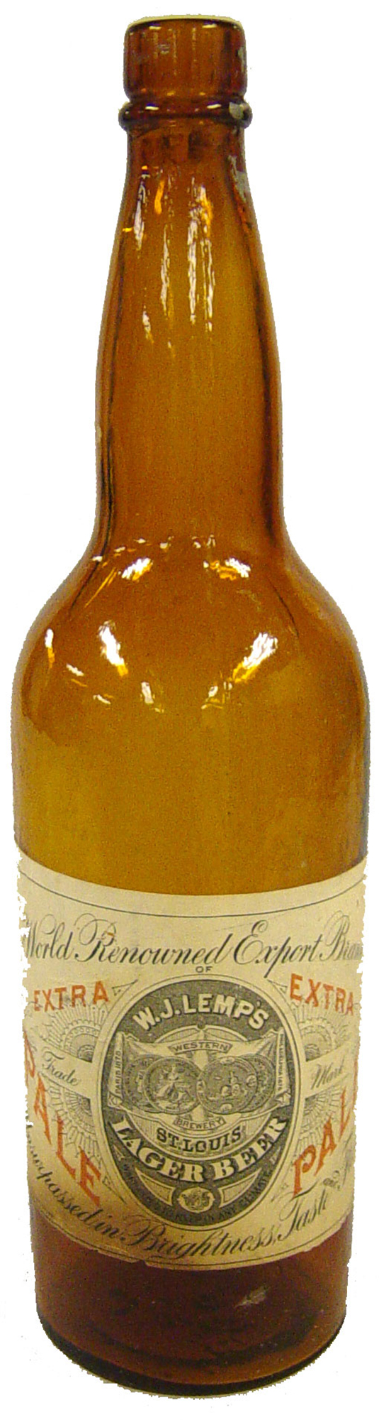 CLEAR, BROWN. BOTTLE (a) CURVES IN AT SHOULDER, AGAIN BELOW MUZZLE. WHITE PAPER LABEL READS "THE WORLD RENOWNED EXPORT BRAND/ OF/ W.J. LEMPS/ LAGER BEER", IN THE CACHE, THE BEER BOTTLE HAD A PROHIBITION BOOKLET WRAPPED AROUND IT. GRCA #29242. . THIS ITEM WAS PART OF A 1893 MINER'S CACHE, STORED IN A LARGE SQUARE TIN AND LOCATED IN THE SUPAI AREA. SOME OF THE ITEMS FROM THIS CACHE ARE ON EXHIBIT AT THE GRAND CANYON VISITOR CENTER. (SOUTH RIM). . THE CACHE INCLUDED VARIOUS PROVISIONS,TOILETRIES AND SUNDRIES (CATALOG #'S 29237- 29243, 29255- 29259, 29287- 29288, 29303- 29304, 29345- 29347, 29362- 29370) AND A NOTEBOOK WITH A MESSAGE ON THE FIRST PAGE THAT READS: . "THIS CASH (SIC) WAS MADE BY/ I.(?) C. REES. ON THE 5TH DAY/ OF JANRURURY (SIC) 1893 IF YOU/ NEED ANY THING IN IT TO/ USE TAKE IT AND WELCOME BUT DO NOT DESTROY OR WASTE/ OR WASTE ANY THING AND YOU/ WILL OBLIDGE (SIC). I.(?) C. REES.. . Grand Canyon National Park Museum Collection, P.O. Box 129, Grand Canyon, AZ 86023